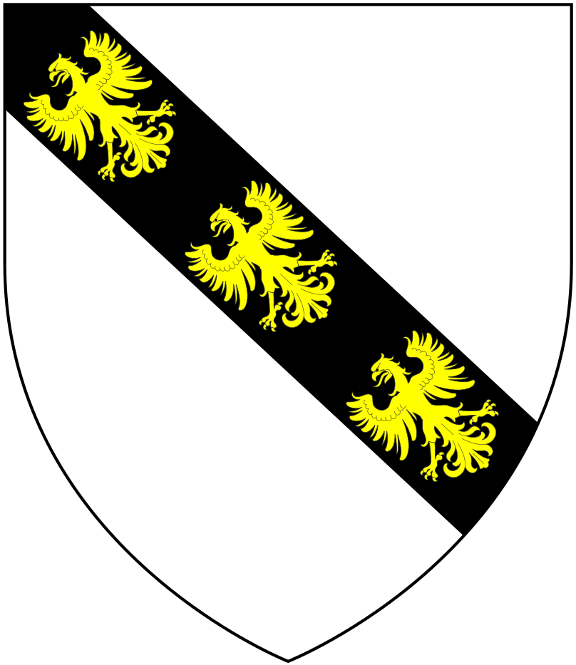 Arms of Ernle: Argent, on a bend sable three eagles displayed or (Burke's Genealogical and Heraldic History of the Landed Gentry, 15th Edition, ed. Pirie-Gordon, H., London, 1937, p.642, Plunkett-Ernle-Erle-Drax of Charborough)